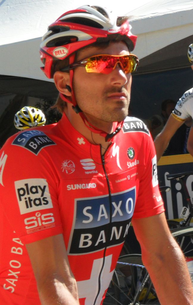 Cancellara at the 2010 Tour of California